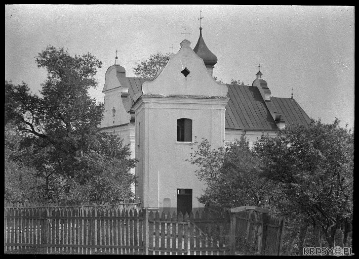 Church of the Holy Trinity in Lyuboml. H.Poddebski, 1925.